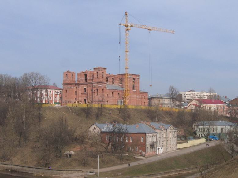 Church_of_the_Assumption_(Viciebsk,_Bielarus), Усьпенская царква ў Віцебску